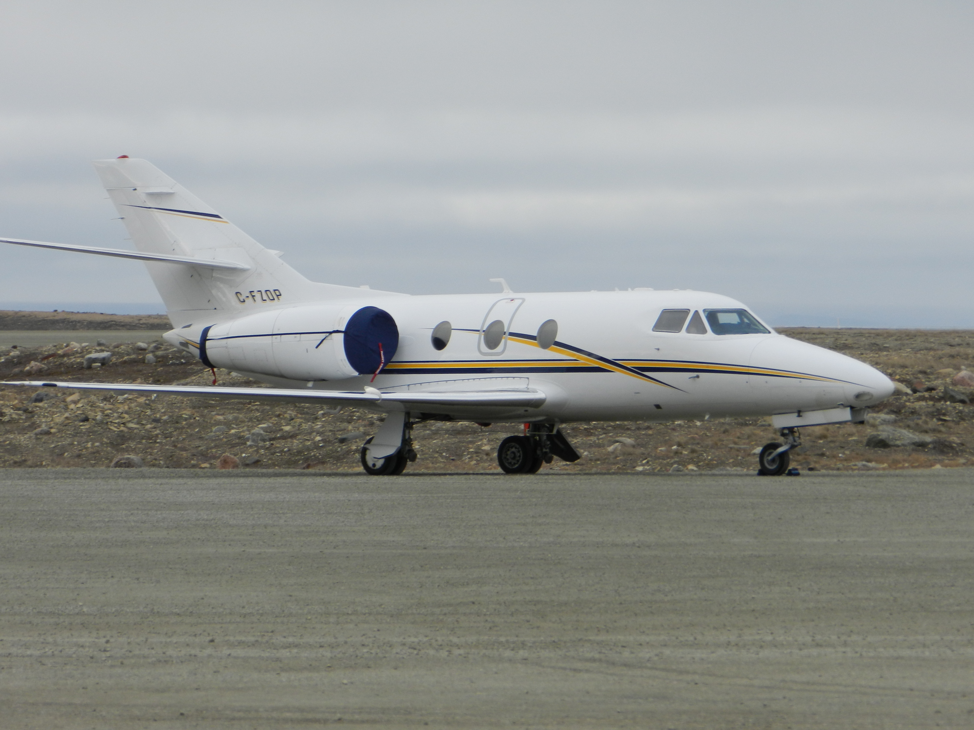 Air Nunavut (Air Baffin) Falcon 10 at Cambridge Bay Airport. Transporting passengers from the Octopus owned by Paul Allen